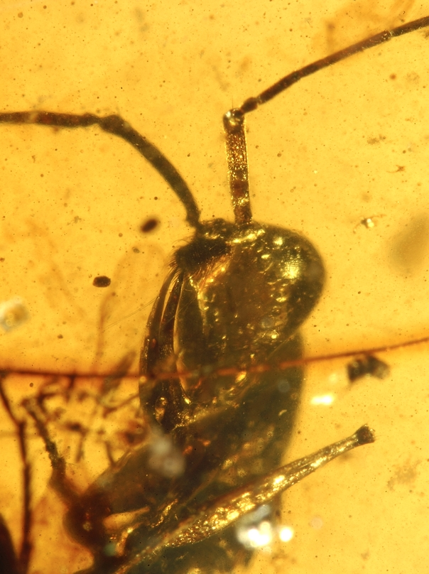 Closeup of the Haidomyrmex scimitarus holotype head. specimen AMNH-BUFB80